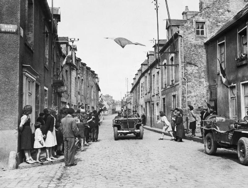 THE ALLIED CAMPAIGN IN NORTH-WEST EUROPE, 6 JUNE 1944 - 7 MAY 1945 The Battle for Normandy: The French Tricolour floats over a street in Carentan, the first French town to be liberated by the Americans. French civilians wave their hands in welcome as men of the US 7th Corps pass through the streets after two days of bitter fighting The capture of Carentan materially strengthened the link between the two American beachheads.